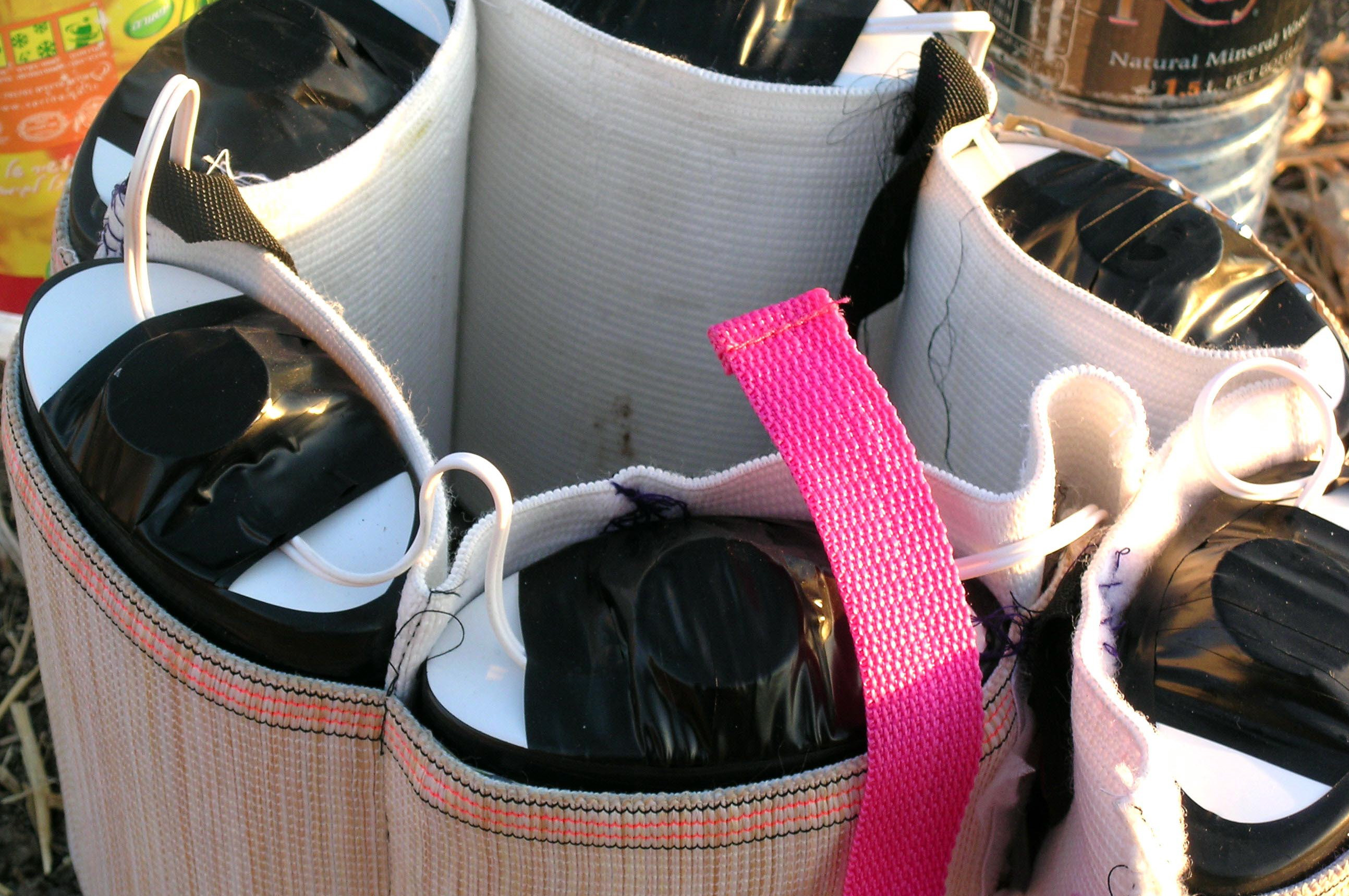 September 27, 2006 In a joint IDF and ISA operation on 27 September 2006, Halad Machmad Katoui and Jihad Yosef Samach Dukan were arrested, having been in possession of an explosive belt weighing 8-10 kg that was to be used in a suicide bombing in Israel. The Israel Defense Forces Facebook The Israel Defense Forces blog Follow us on Twitter